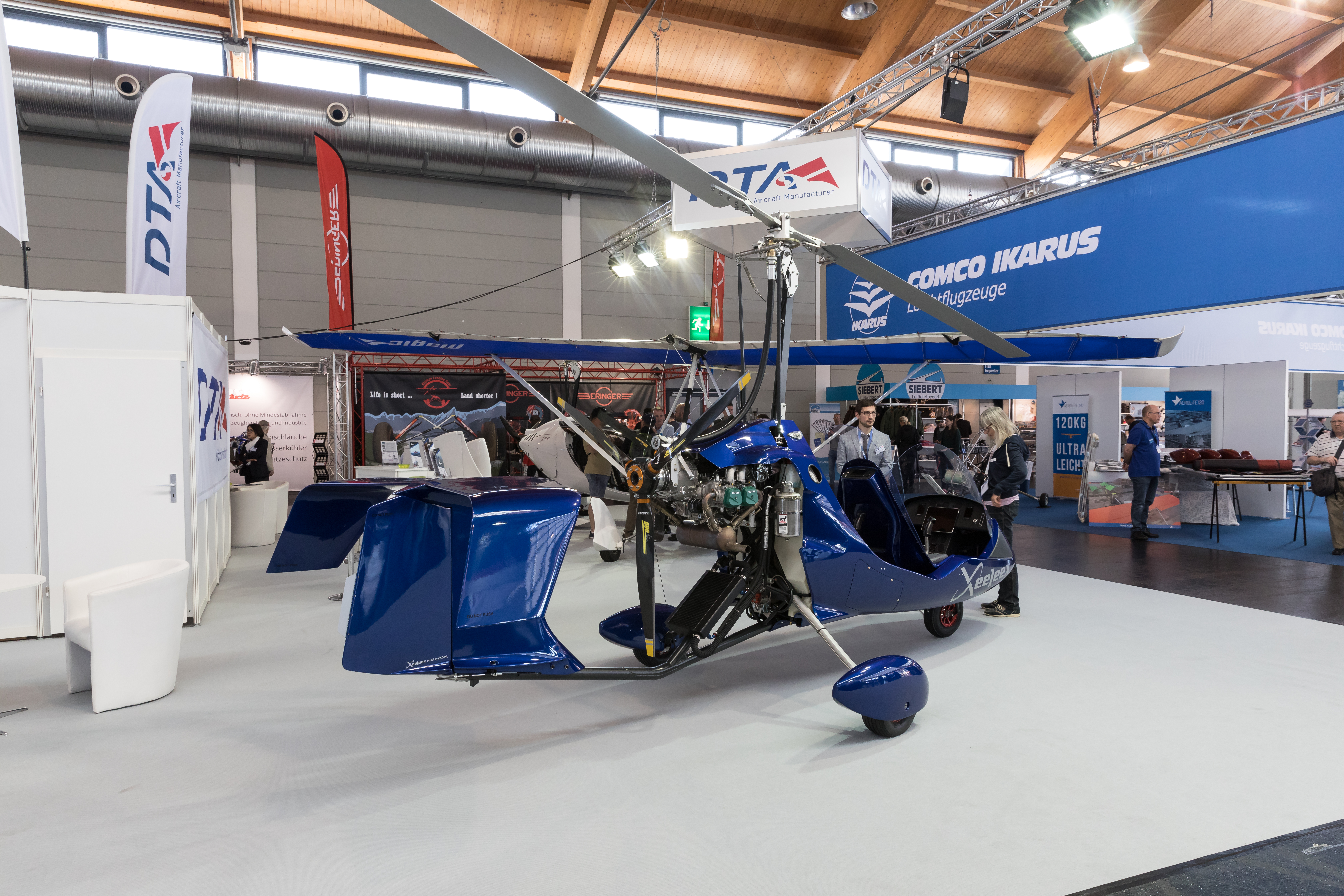 DTA Xeeleex autogyro, AERO Friedrichshafen 2018